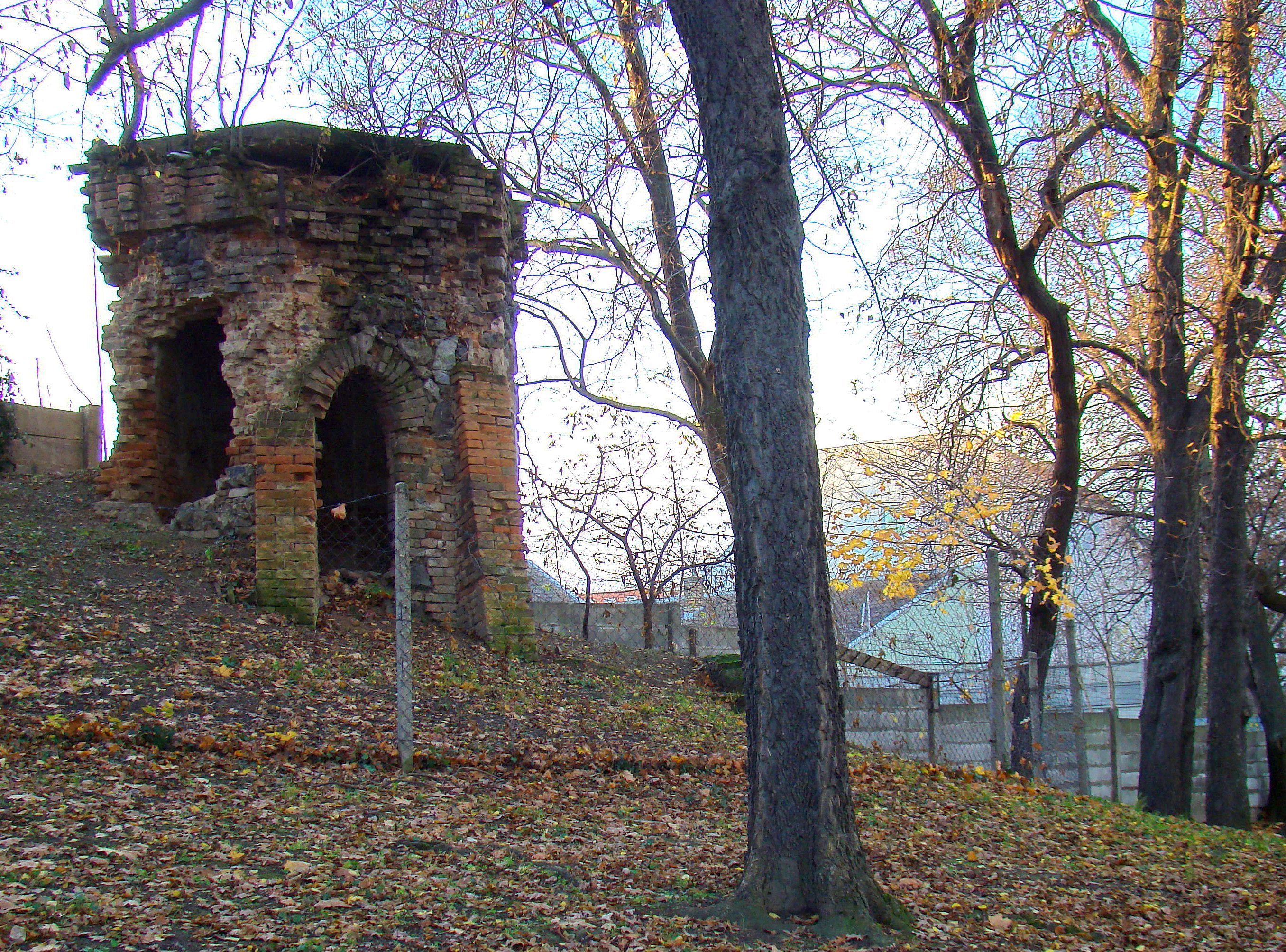 A fragment from reconstruction (19. century) of the Ernest's bastion in Nové Zámky - Slovakia.